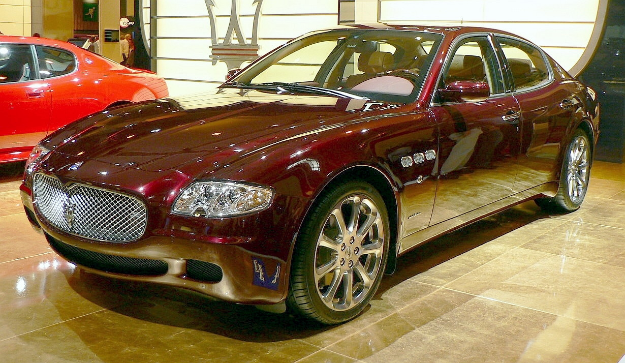 Maserati Quattroporte at the 2006 Paris Motor Show